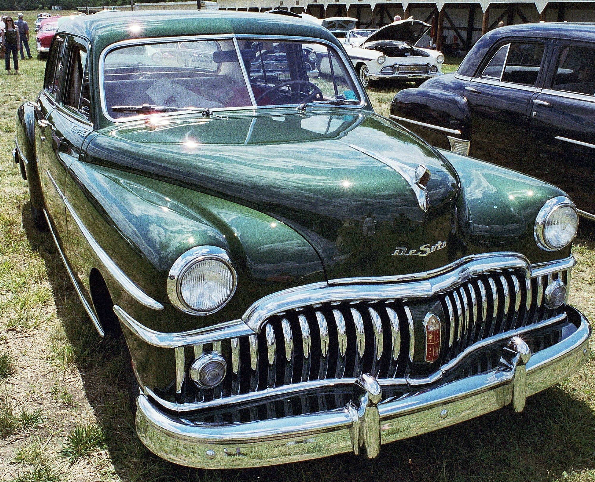 1950 DeSoto 4 Door Custom Carry-All Shiny Green, My Favorite Color! National DeSoto Convention Saturday July 21st 2007 Waldorf, Maryland